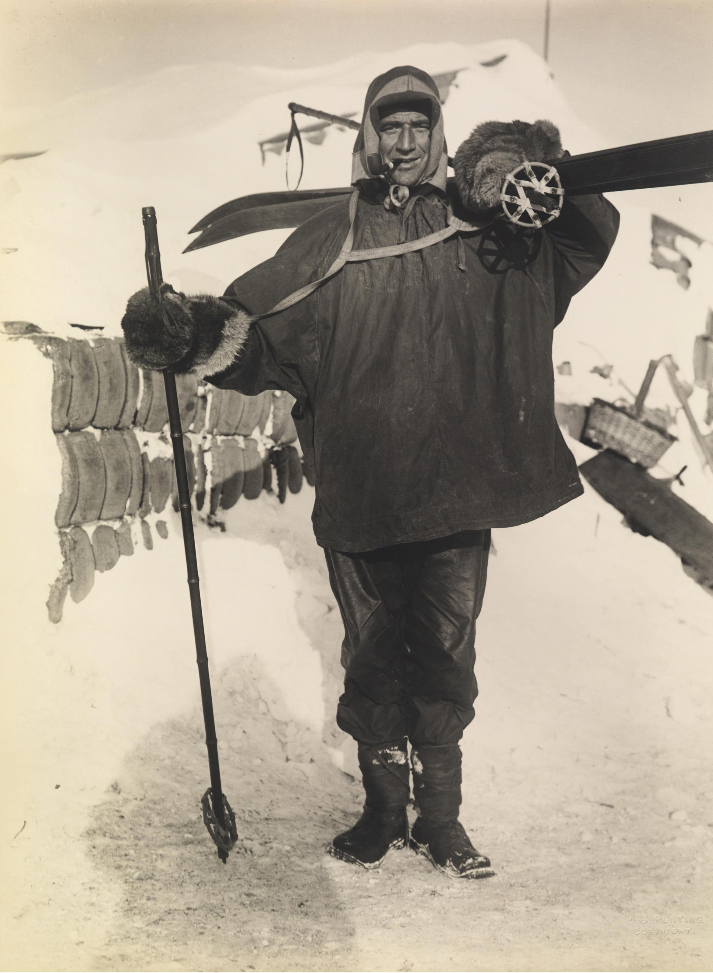 Petty Officer Crean, Scott's Antarctic Expedition, c. 1911, gelatin silver print